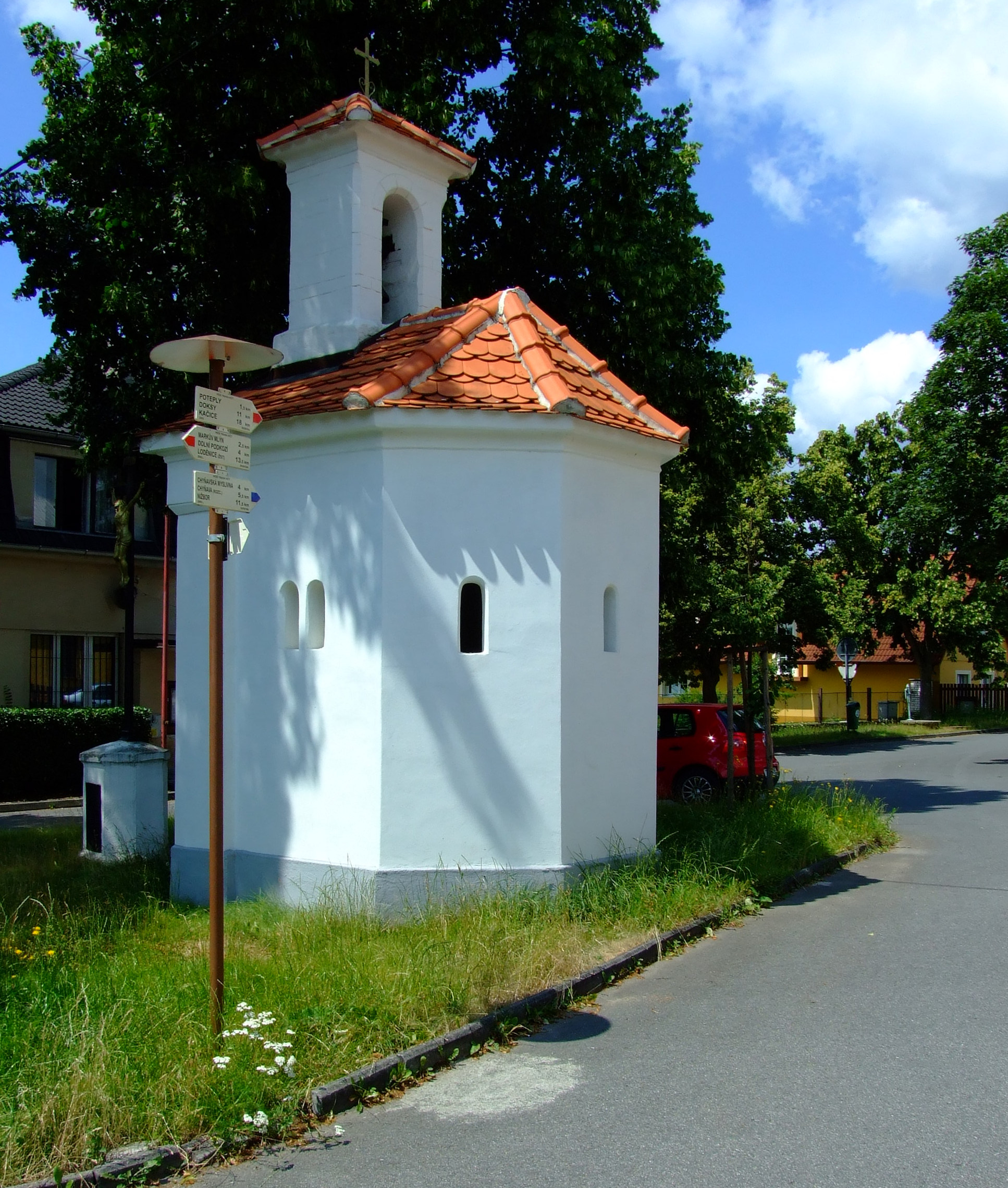 Malé Kyšice village - chapel - in Central Bohemian region, CZhelp